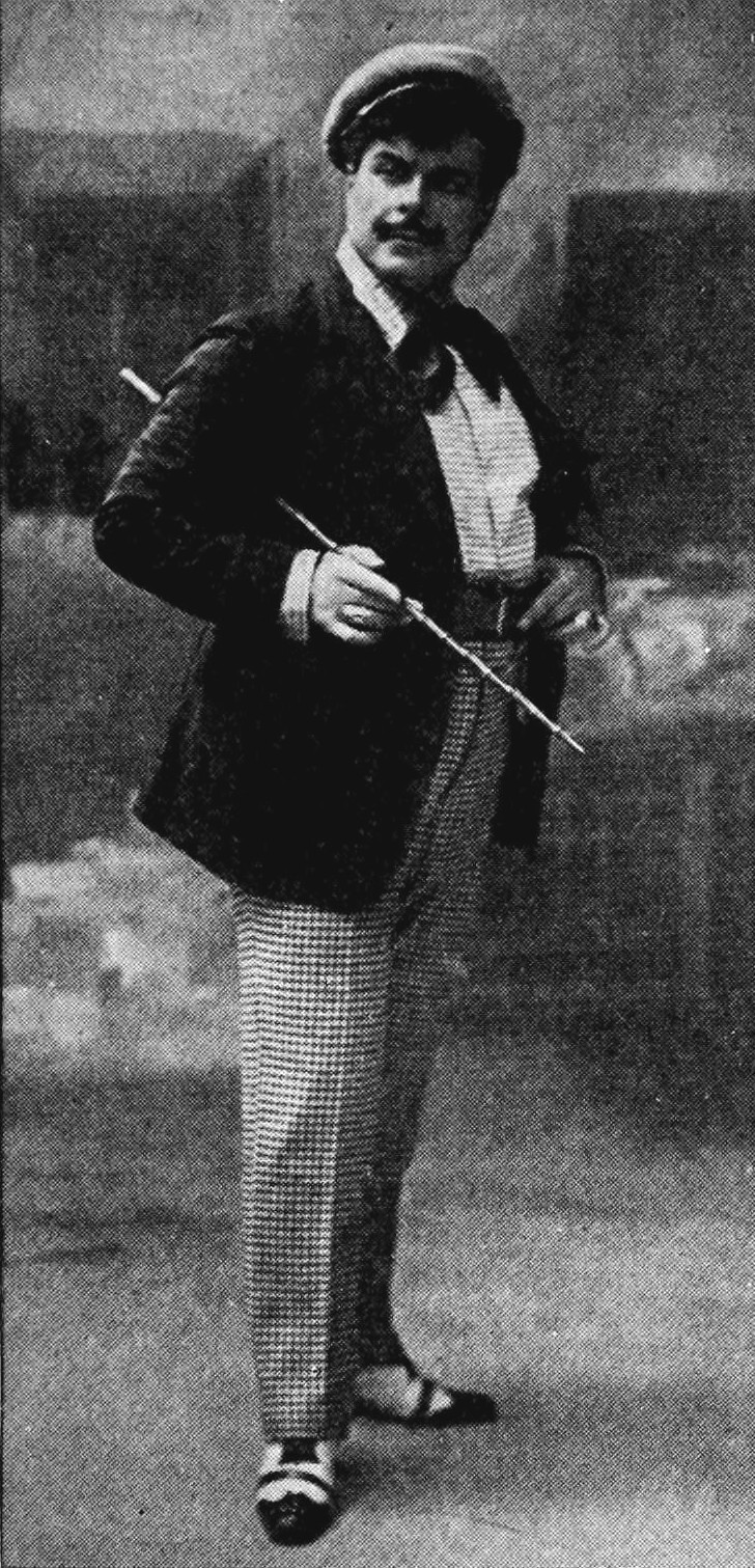 Wolf-Ferrari - I gioielli della Madonna - Mario Sammarco as Rafaele - Dover St. Studios Title: The Victrola book of the opera : stories of one hundred and twenty operas with seven-hundred illustrations and descriptions of twelve-hundred Victor opera records Year: 1917 (1910s) Authors: Victor Talking Machine Company Rous, Samuel Holland Subjects: Operas Publisher: Camden, N.J. : Victor Talking Machine Co. Text Appearing Before Image: els.The unhappy girl drownsherself, and Gennaro, in anabandon of remorse and de-spair, places the jewels on analtar, prays for mercy, anddrives a dagger into his heart.As the people, bent on ven-geance, burst into the room,they see the body of the un-fortunate youth lying beforethe Madonna. The two intermezzi are de-lightful examples of the ex-quisite music which Wolf-Ferrari has written for thiswork. One is the beautifulwaltz intermezzo between thesecond and third acts, and theother, an effective numbermainly for harp, flute andstrings, is played before Act II.The beautiful Serenade occurs in the second act of the opera. The scene is the gardenof Maliellas house. It is evening, and from the distance are heard the strains of an oldNeapolitan folk ballad, sung by a chorus afloat on the bay. This is succeeded by thetinkling of mandolins and guitars behind the wall of Maliellas garden. Rafaele and hiscompanions appear, and he sings his Serenade, which begins: Aprila bella la fenestrella. Text Appearing After Image: DOVER ST. STUDIOS